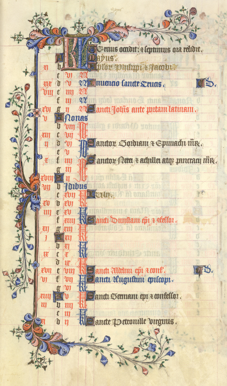 Calendar page; from BL Add MS 42131, f. 3r (the "Bedford Psalter and Hours"). Held and digitised by the British Library.